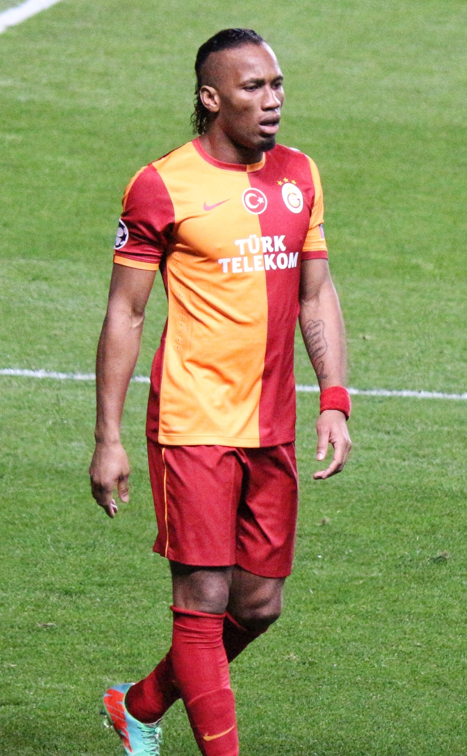 Champions League match between Chelsea and Galatasaray SK at Stamford Bridge on 18 March 2014.